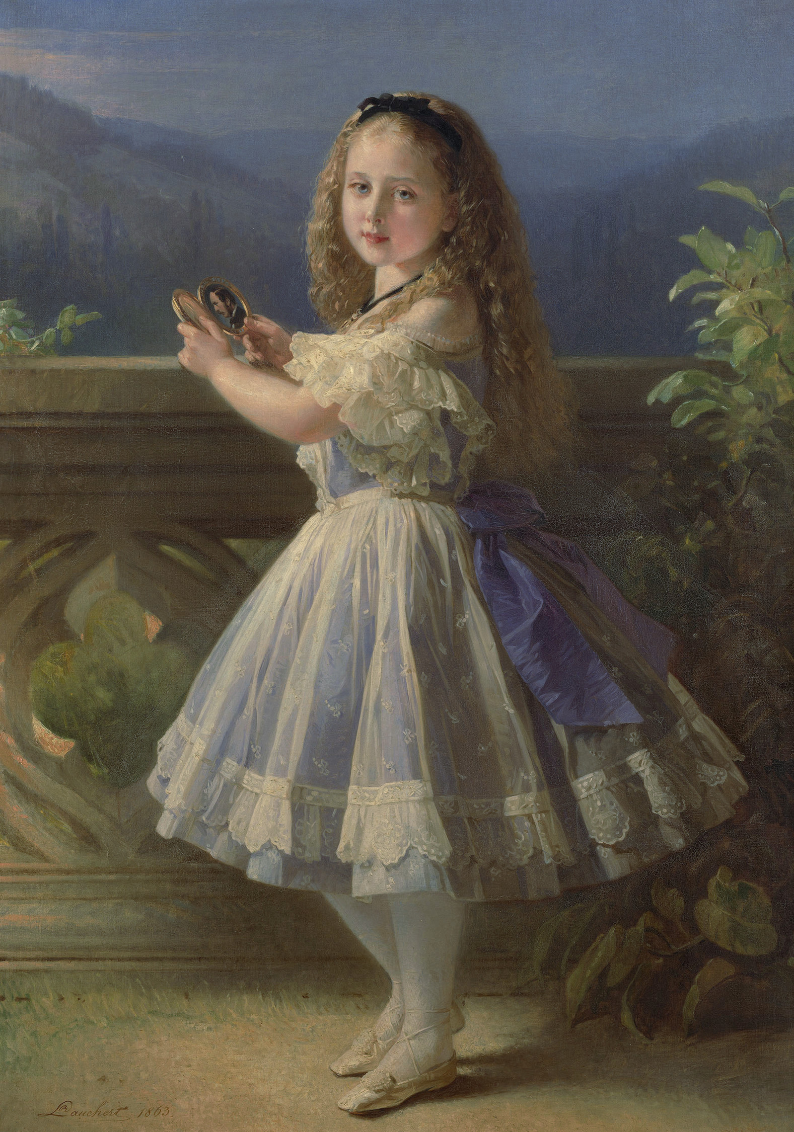 Princess Beatrice of the United Kingdom (1856-1944)